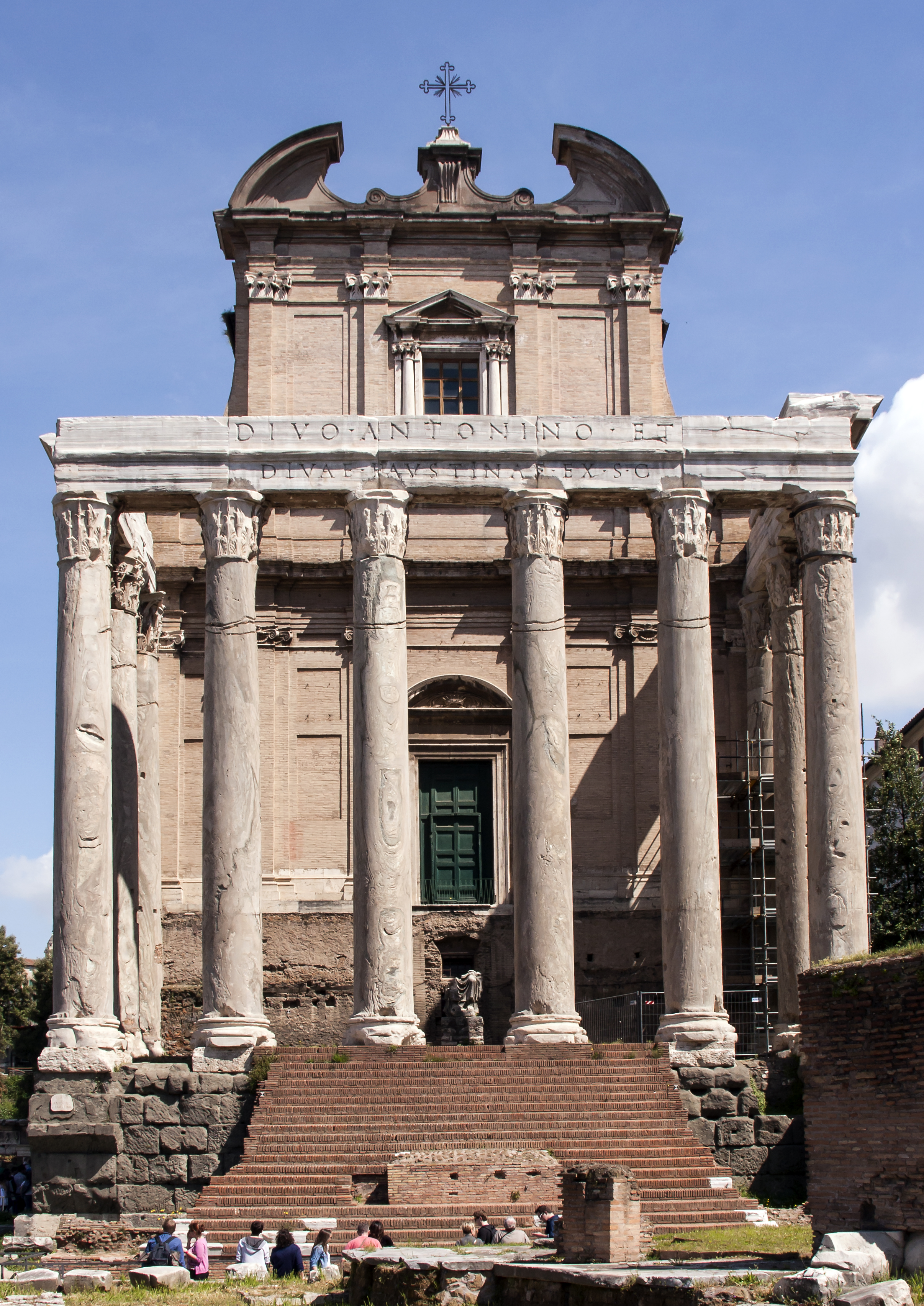 The temple of Antoninus and Faustina at Forum Romanum in Rome.